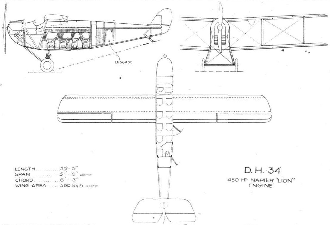 Three-view drawing of De Havilland DH.34 with 450 hp Napier Lion engine.